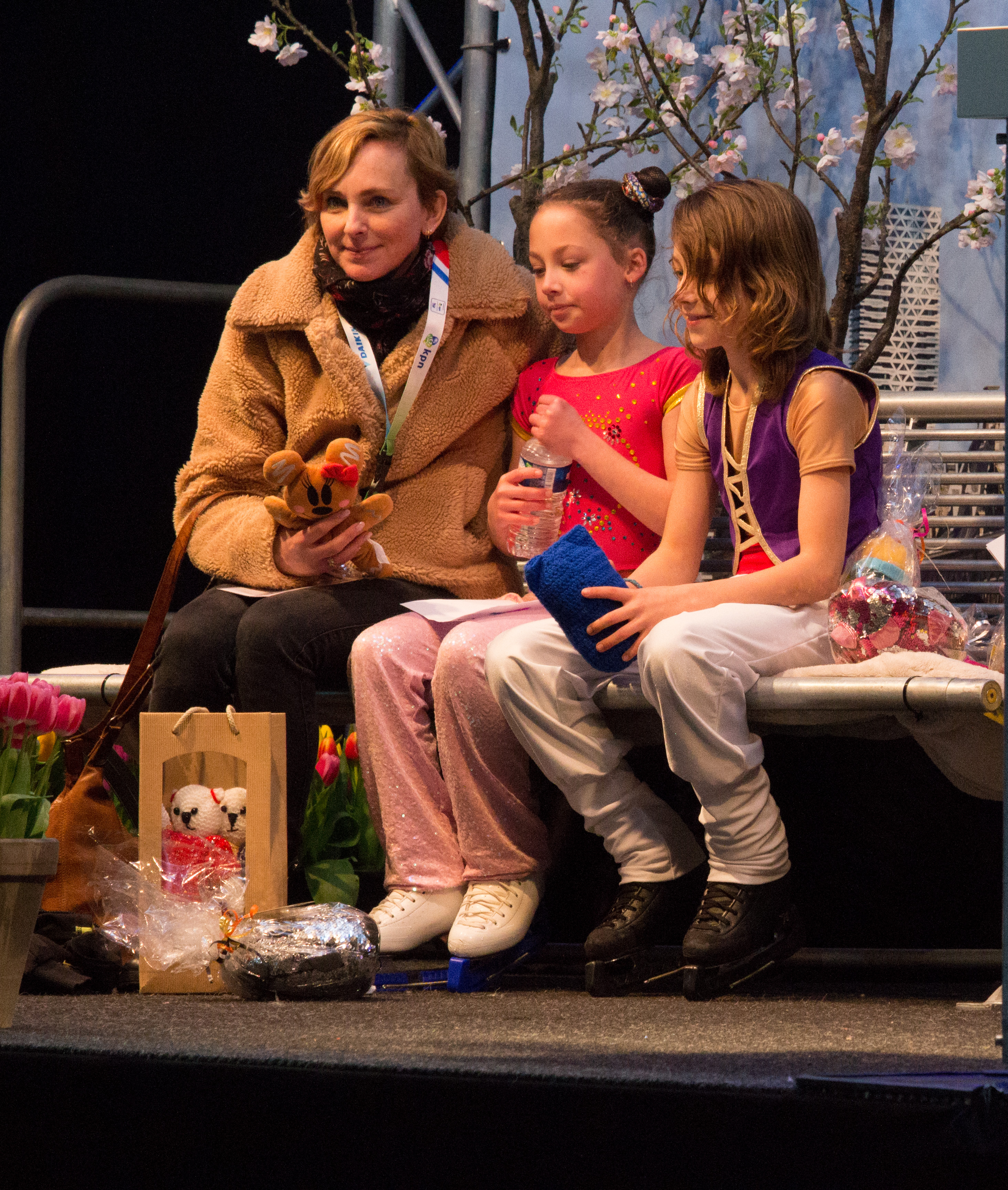 Competitors in the figure skating Challenge Cup 2020, held at De Uithof, The Hague